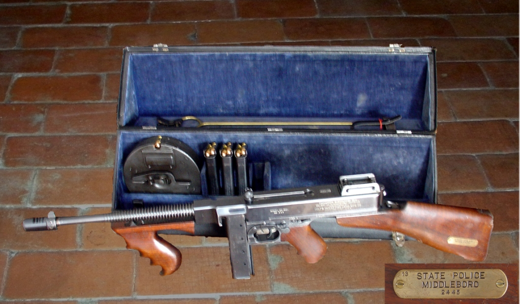 Cased Police Thompson